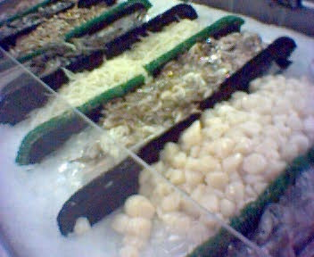 Really fresh looking seafood